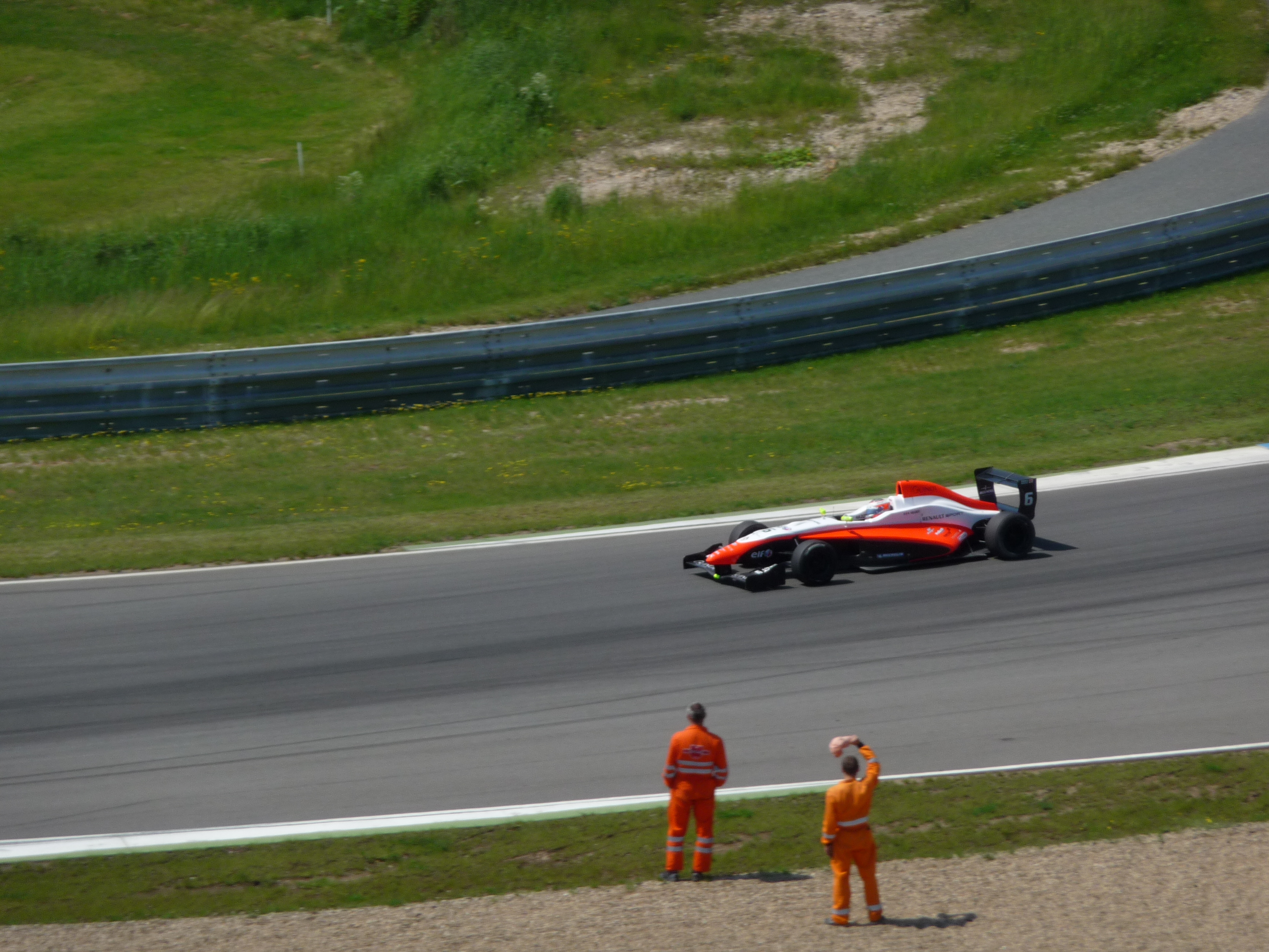 Hugo Valente, Eurocup Formula Renault 2.0, 2nd race, 2010 Brno World Series by Renault